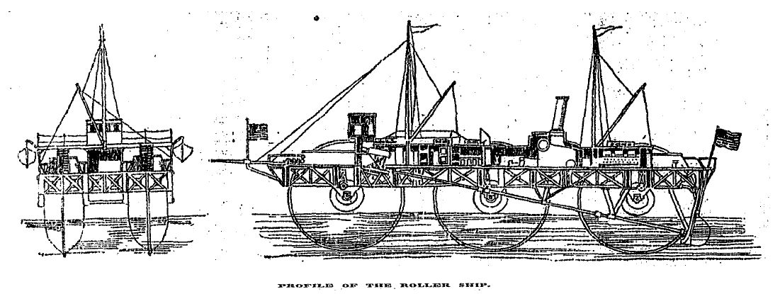 Sketch of the Bazin roller ship, published in the New York Times